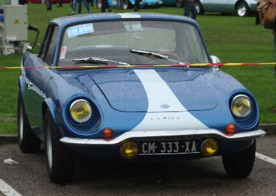 Alpine A108 2+2 - front